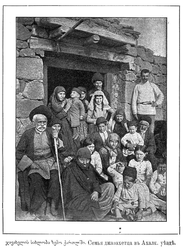 Javakhetians are ethnic group of Georgian nation who live in Javakheti region of Georgia. Джавахи - этнографическая группа грузинского народа проживающее Джавахетского края Грузии.